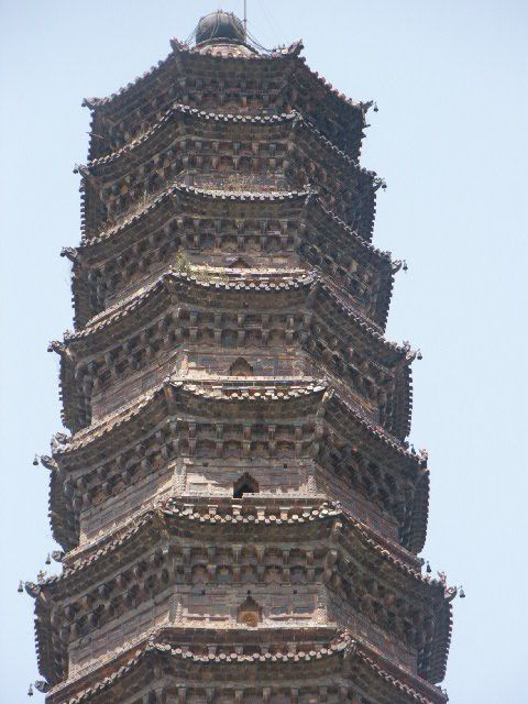 The 'Iron Pagoda' of Kaifeng, Henan, China, built out of glazed brick in 1049 AD during the Chinese Song Dynasty (960–1279).